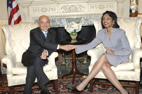 Washington, DC April 20, 2007 Secretary Rice meets with The Honorable Fiorenzo Stolfi, Secretary for Foreign and Political Affairs and for Economic Planning of the Republic of San Marino and President of the Council of Europe.